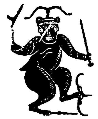 Chi You. The stone print of the age of Han dynasty.